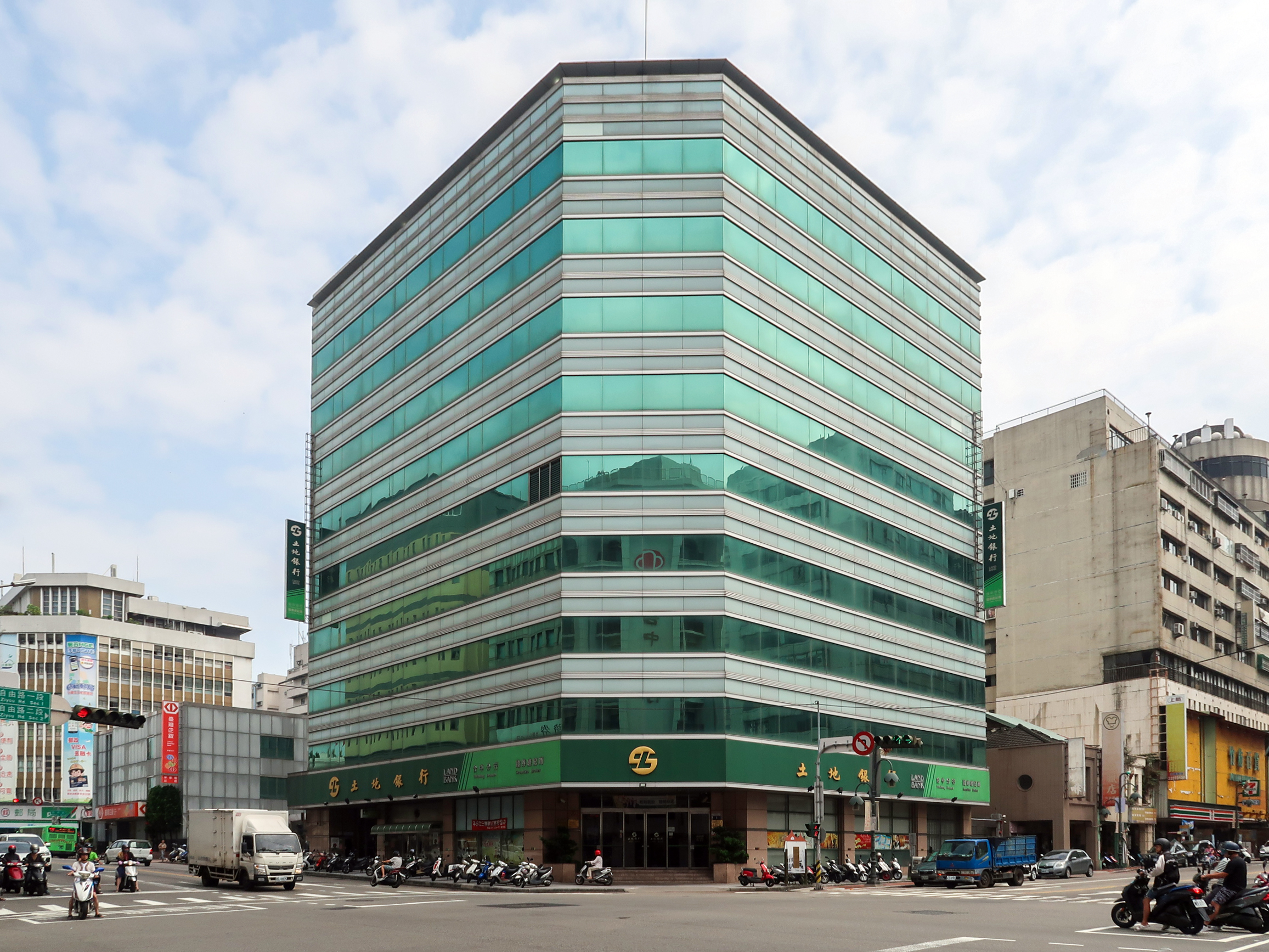 Taichung Branch, Land Bank of Taiwan.